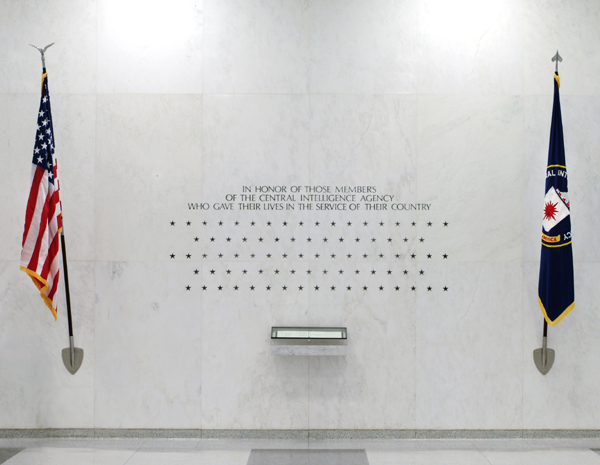 The CIA Memorial Wall at CIA headquarters, located in the Old Headquarters Building in Langley, Virginia, United States. It contains 102 (83 when picture was taken) stars, representing the deaths of 102 CIA officers. The names of 63 are revealed in the memorial book (on the wall below the stars), while 39 remain secret.